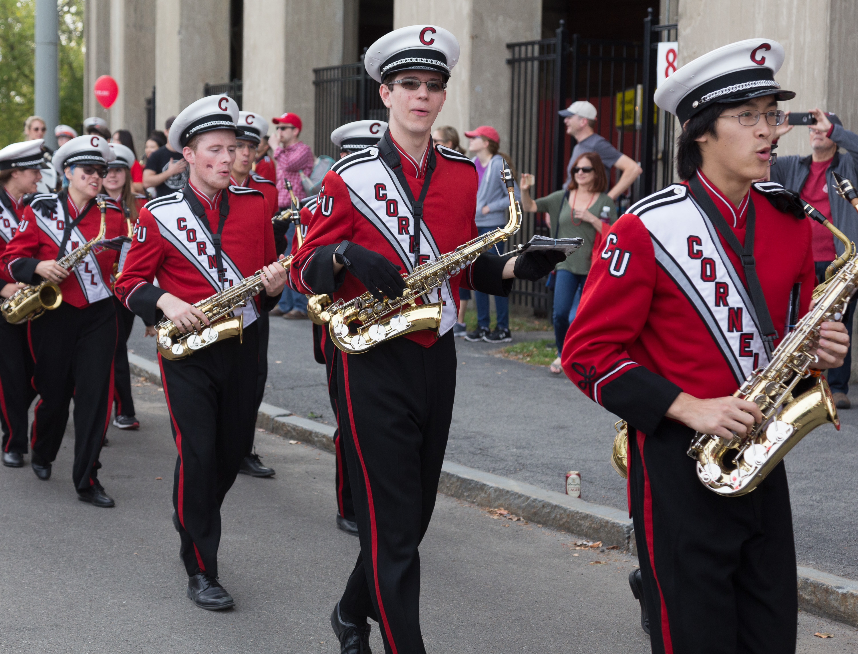 Big Red Marching Band, at Homecoming 2017, Cornell University